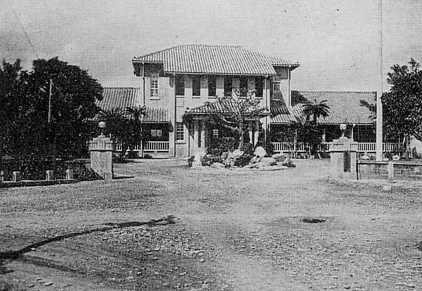 Taito Prefectural Office